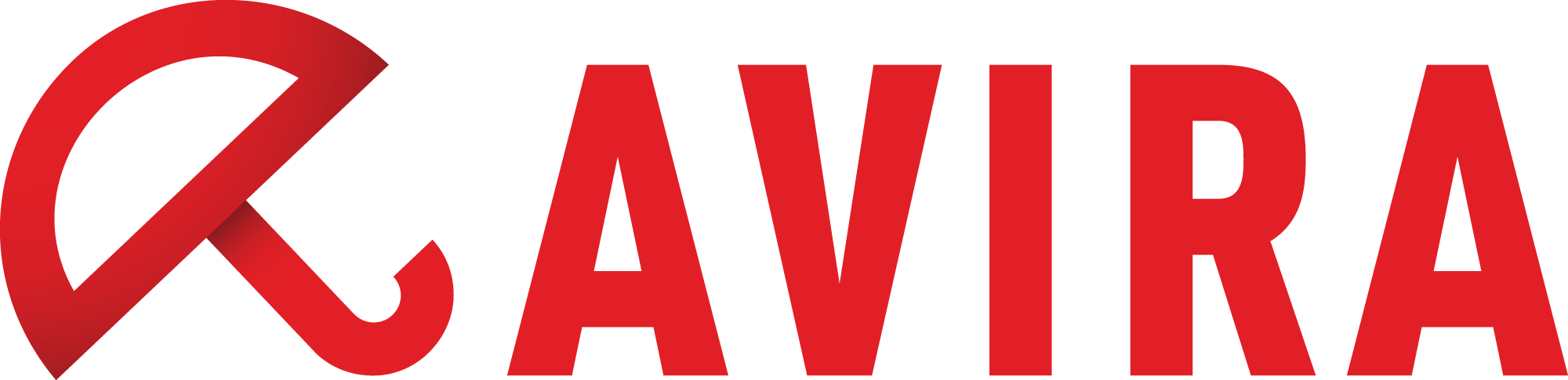 Avira Operations GmbH & Co. KG